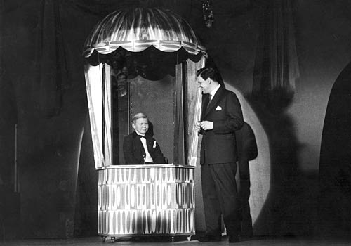 Nils Erik Bæhrendtz and Ulf Hannerz in Kvitt eller dubbelt. 14-year-old Ulf Hannerz knew more than the judge as he could tell which of seven showed fish that had lids. He answered "mudminnows" (hundfisk). No, the judge said, it's "mudskipper". But Ulf was indeed right and therefore did the name "mudskipper" (slamkrypare) enter into the Swedish language as a term for cocksure - but incorrect - assertions.